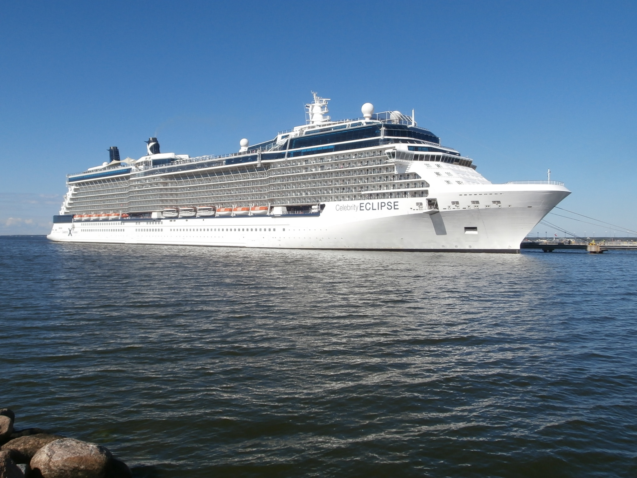 Celebrity Eclipse at pier 24 in Port of Tallinn 23 July 2017